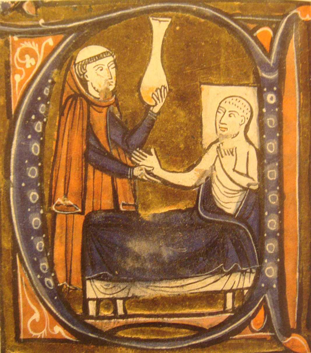 European depiction of the Persian (Iranian) doctor Al-Razi, in Gerardus Cremonensis "Recueil des traités de médecine" 1250-1260. A surgeon (left) holds the matula, a vessel for collecting the urine.